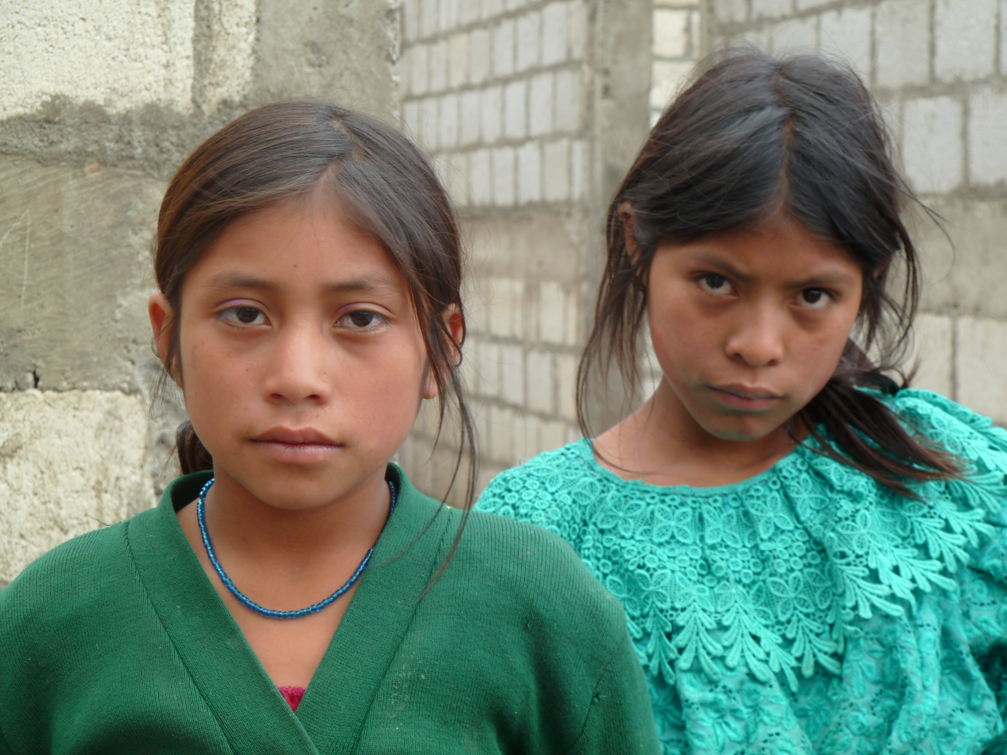 Mam people, 2 girls photographed in the country, north of Ostuncalco, SW Guatemala